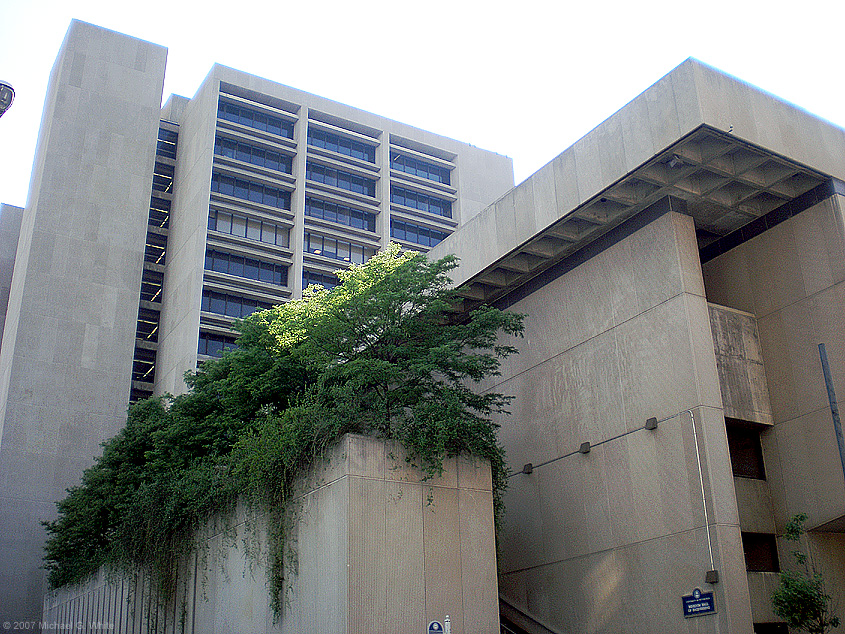 The Benedum Hall at the University of Pittsburgh. photo by Michael G White